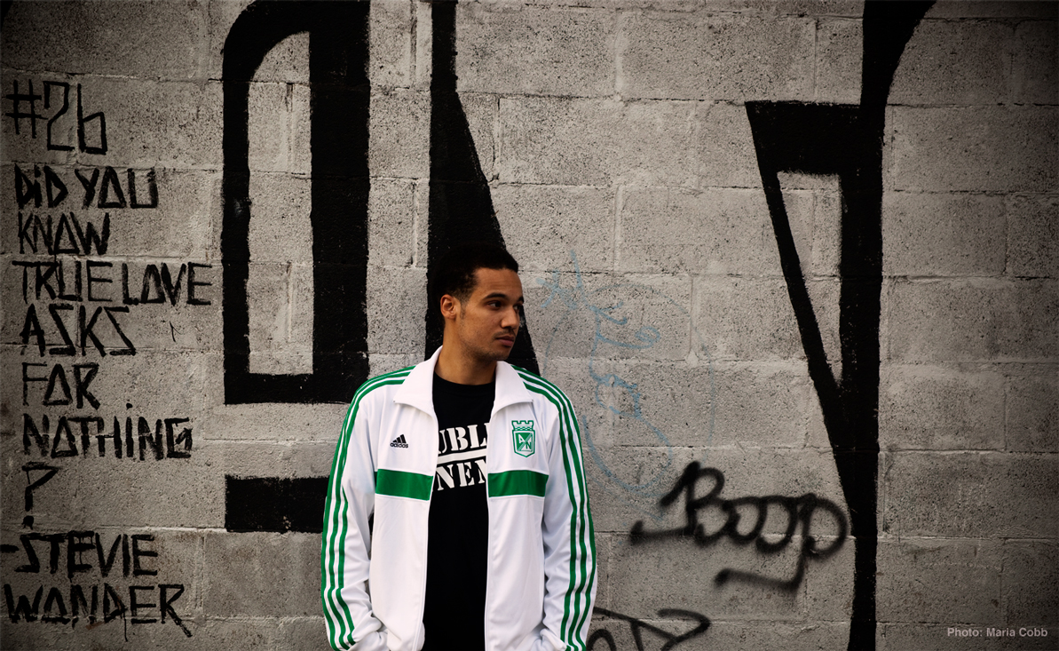 Press photo of record producer and audio engineer Chris Tabron